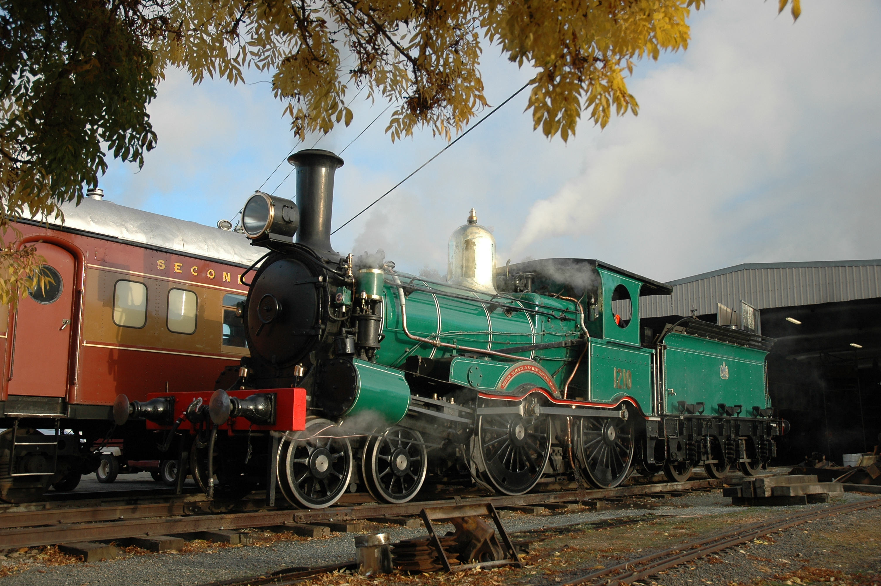 ARHS ACT Locomotive 1210